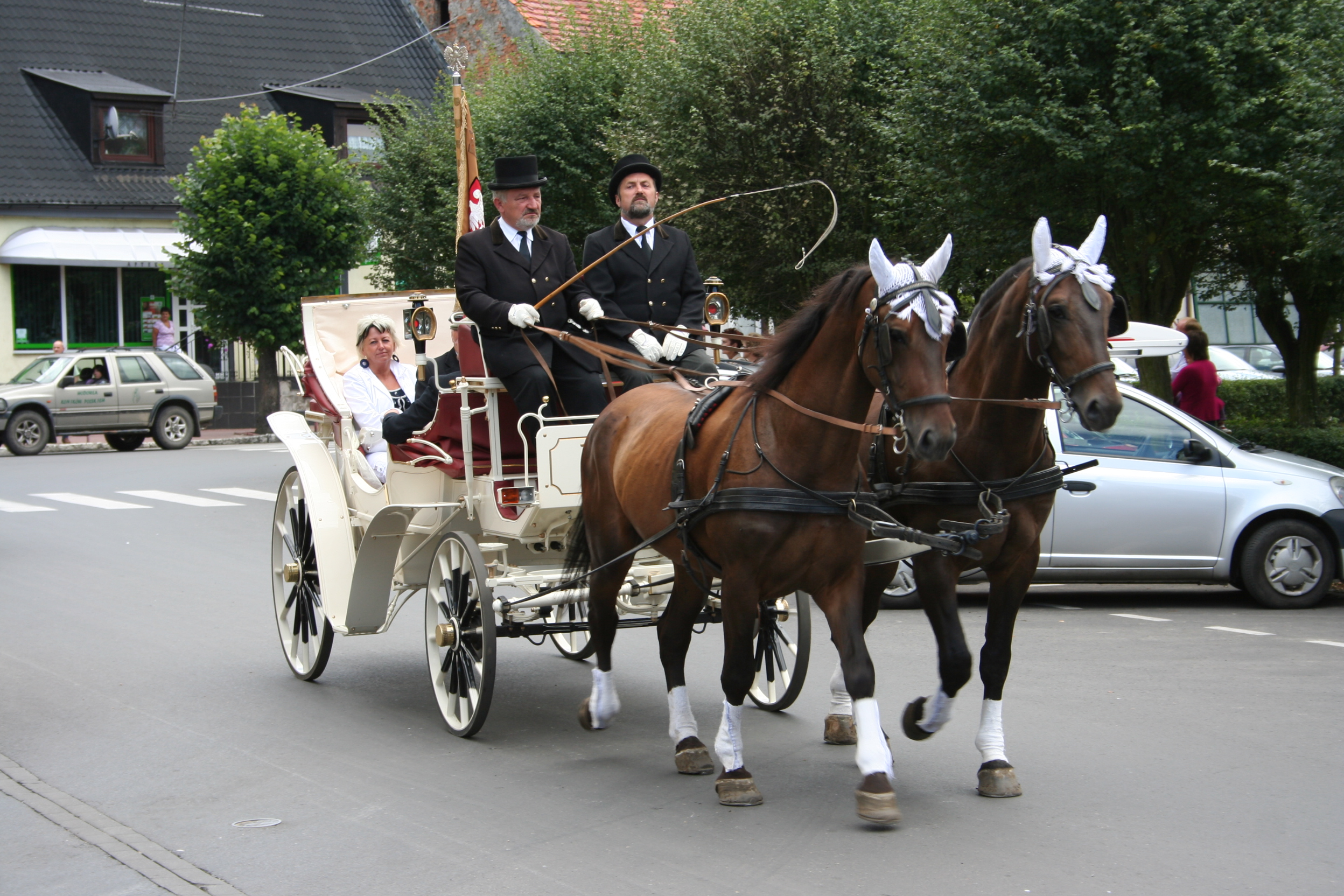 The Sieraków Stud - 180 anniversary